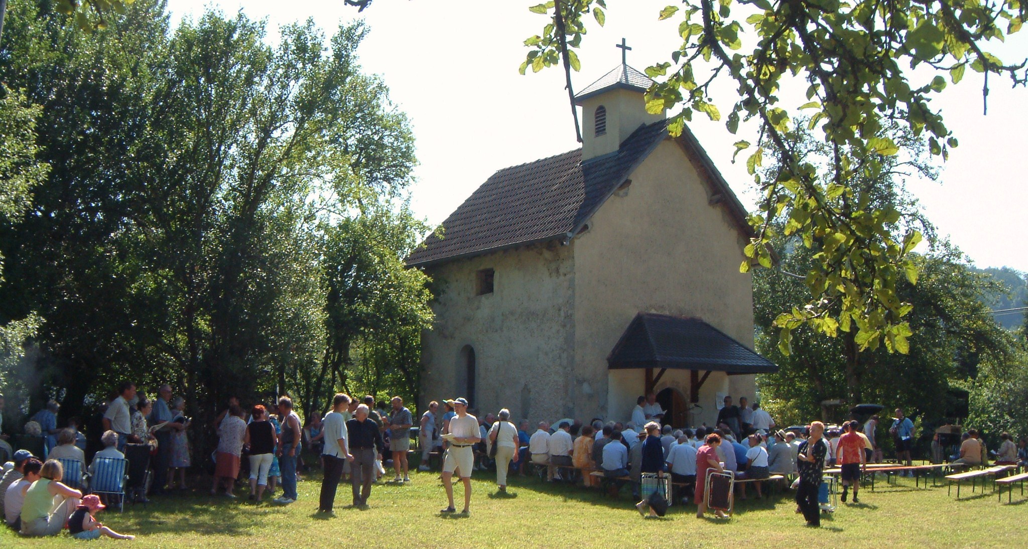 The chapel St. Anne in France, Clos du Doubs, Fessevillers. 2002, Celebration of St Anne.